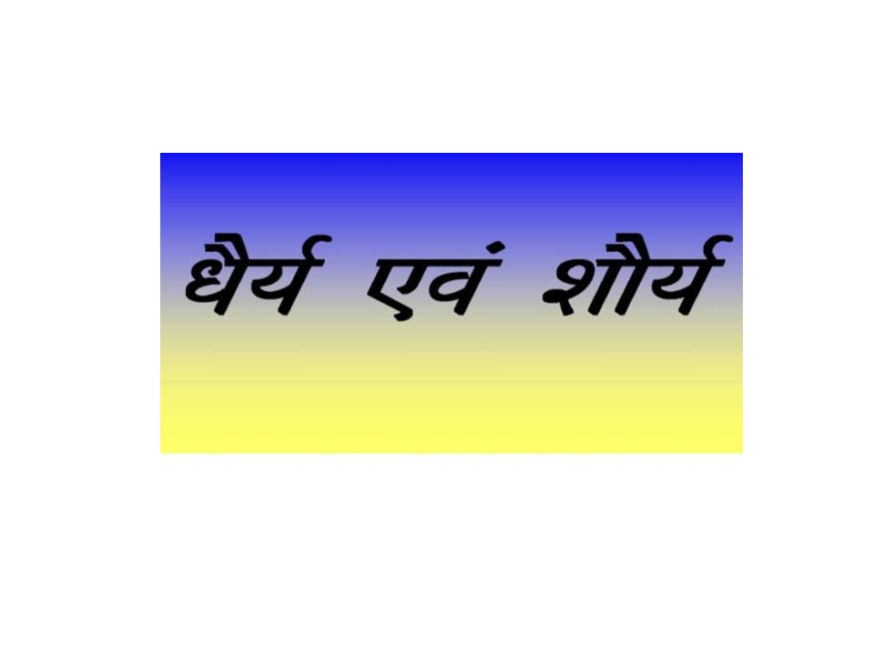 Regt Motto 62 CAVALRY